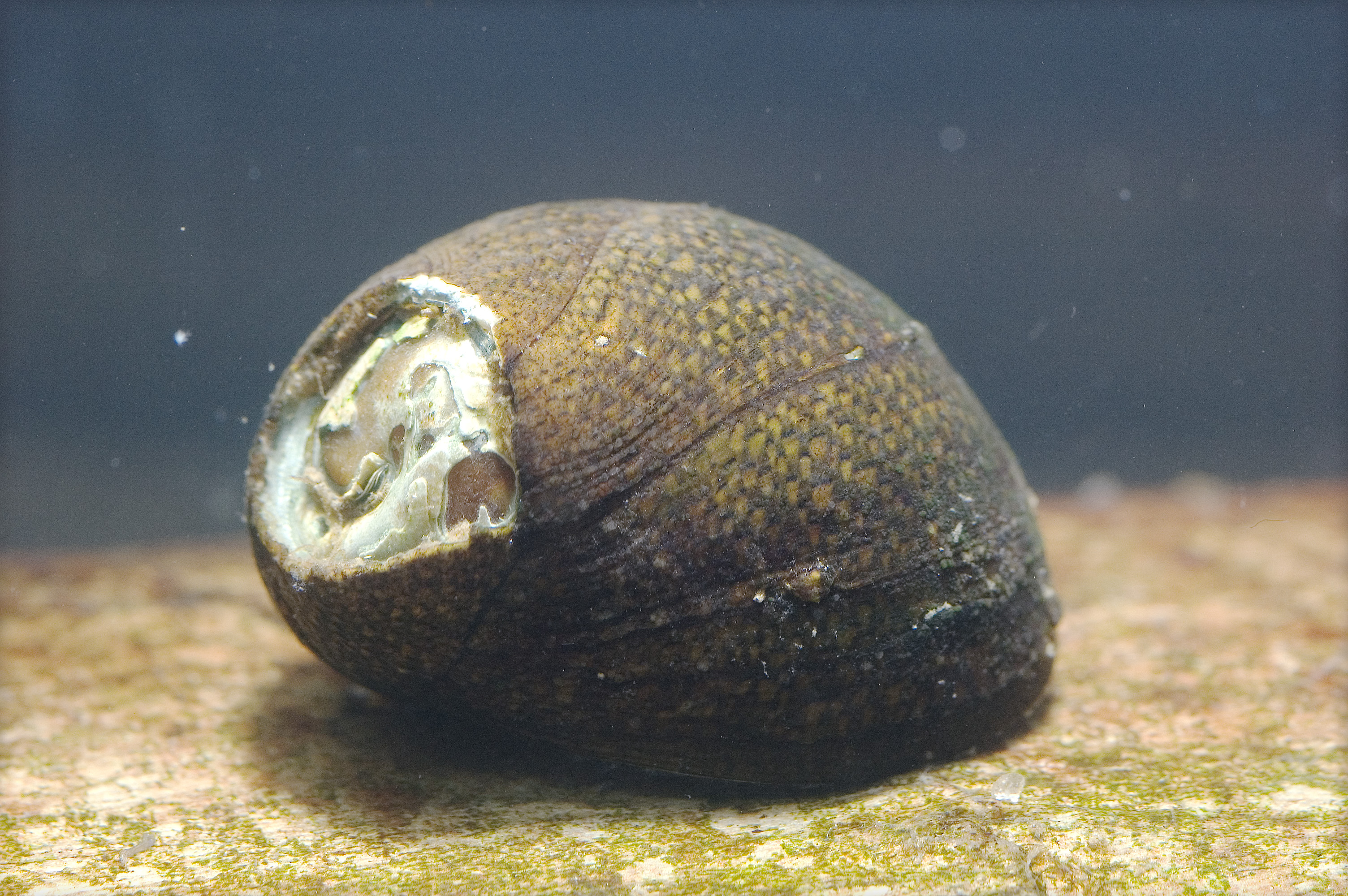 Ishimakigai, Clithon retropictus, from Hamamatsu, Shizuoka, Japan.